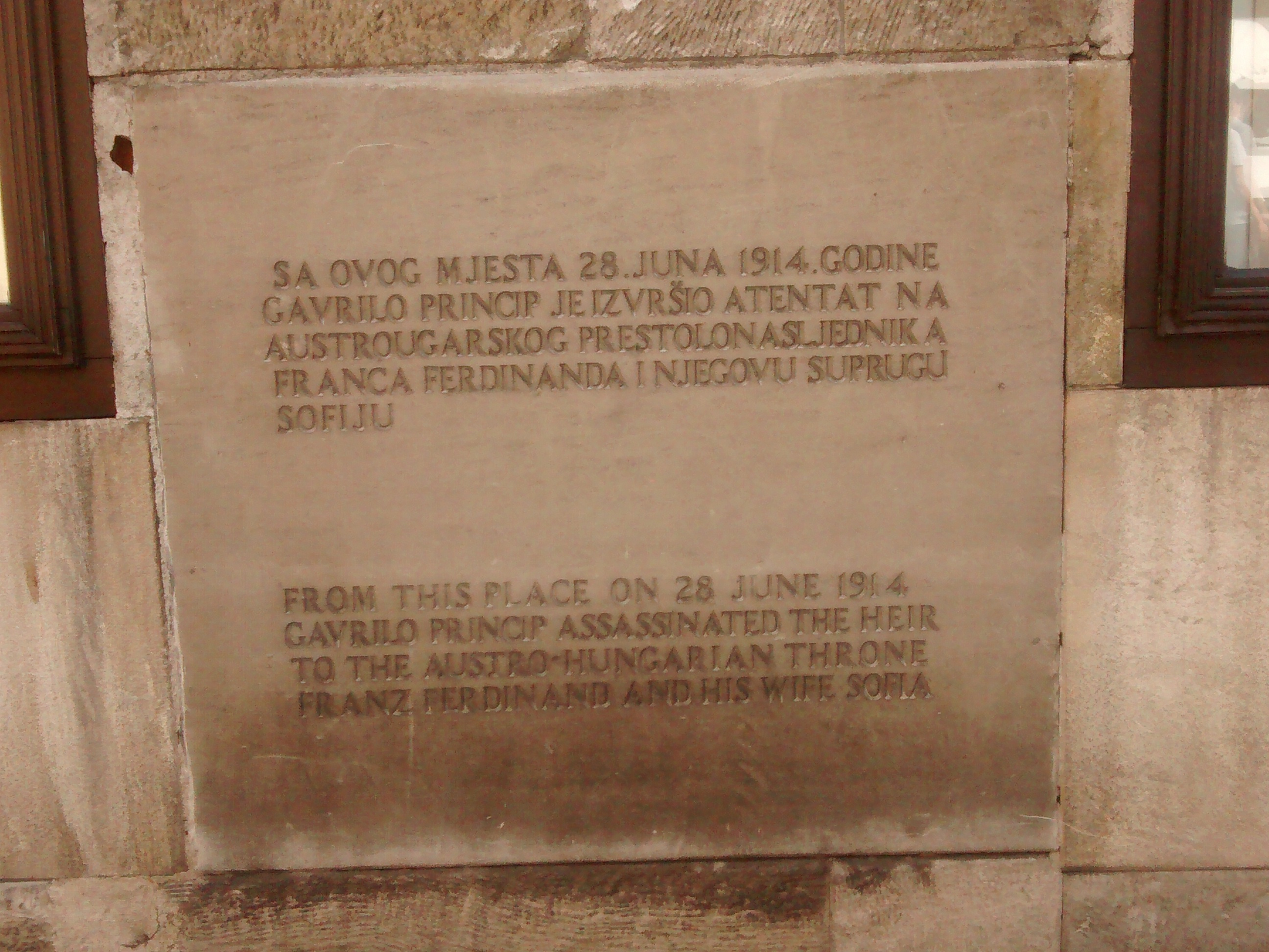 Sarajevo assassination memorial plaque (2018)